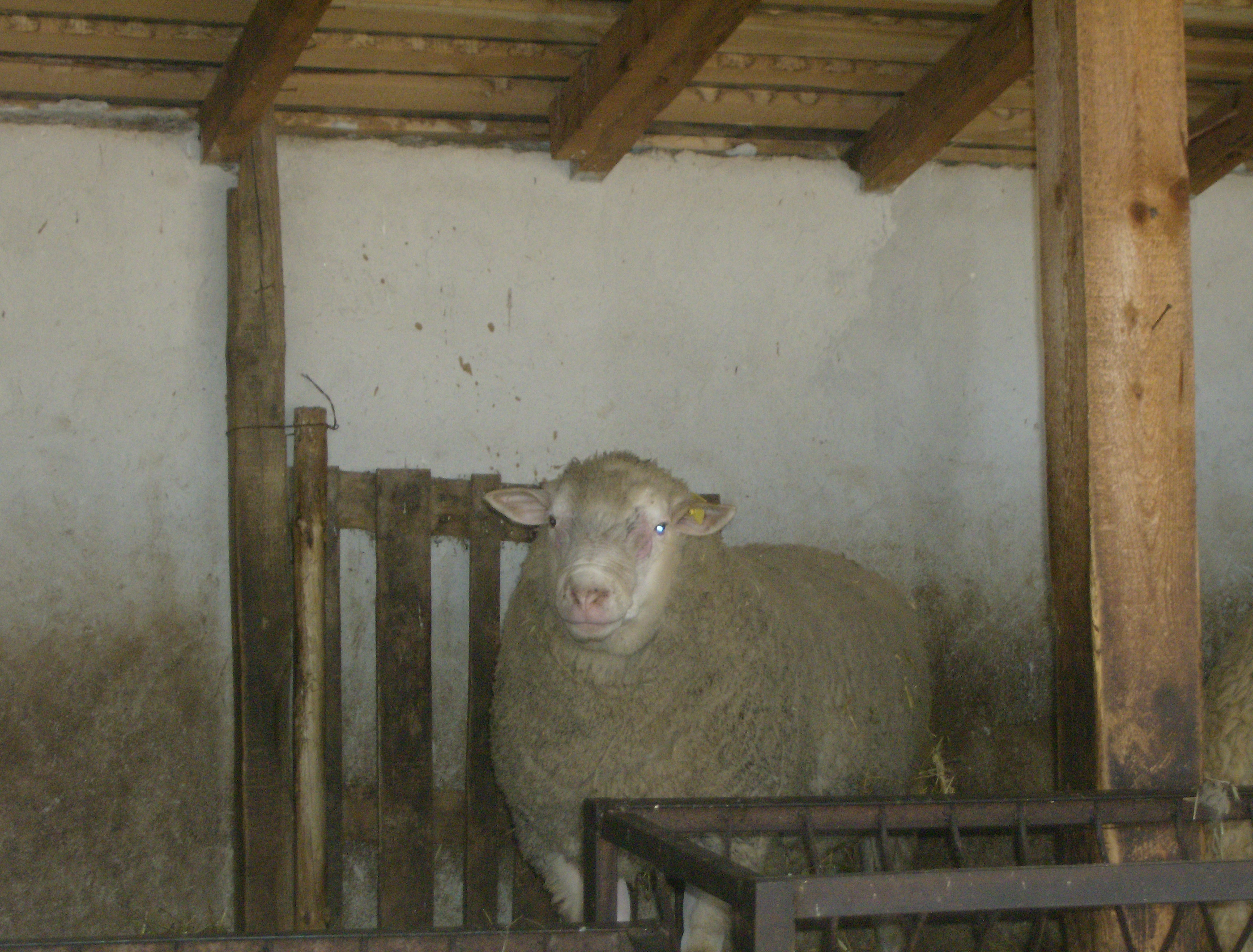 Synthetic Population Bulgarian Milky Sheep